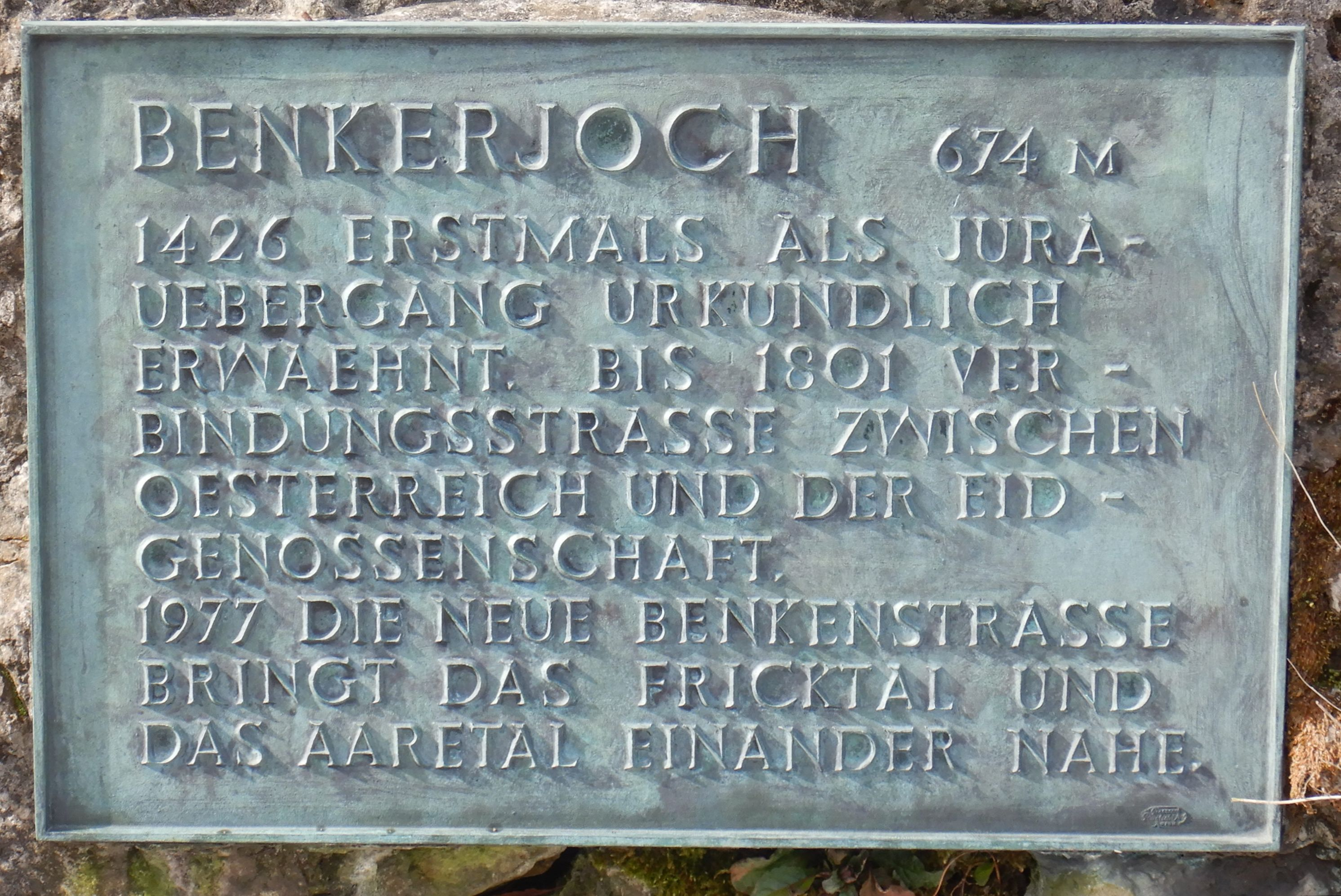 Memorial sign on Benkerjoch.